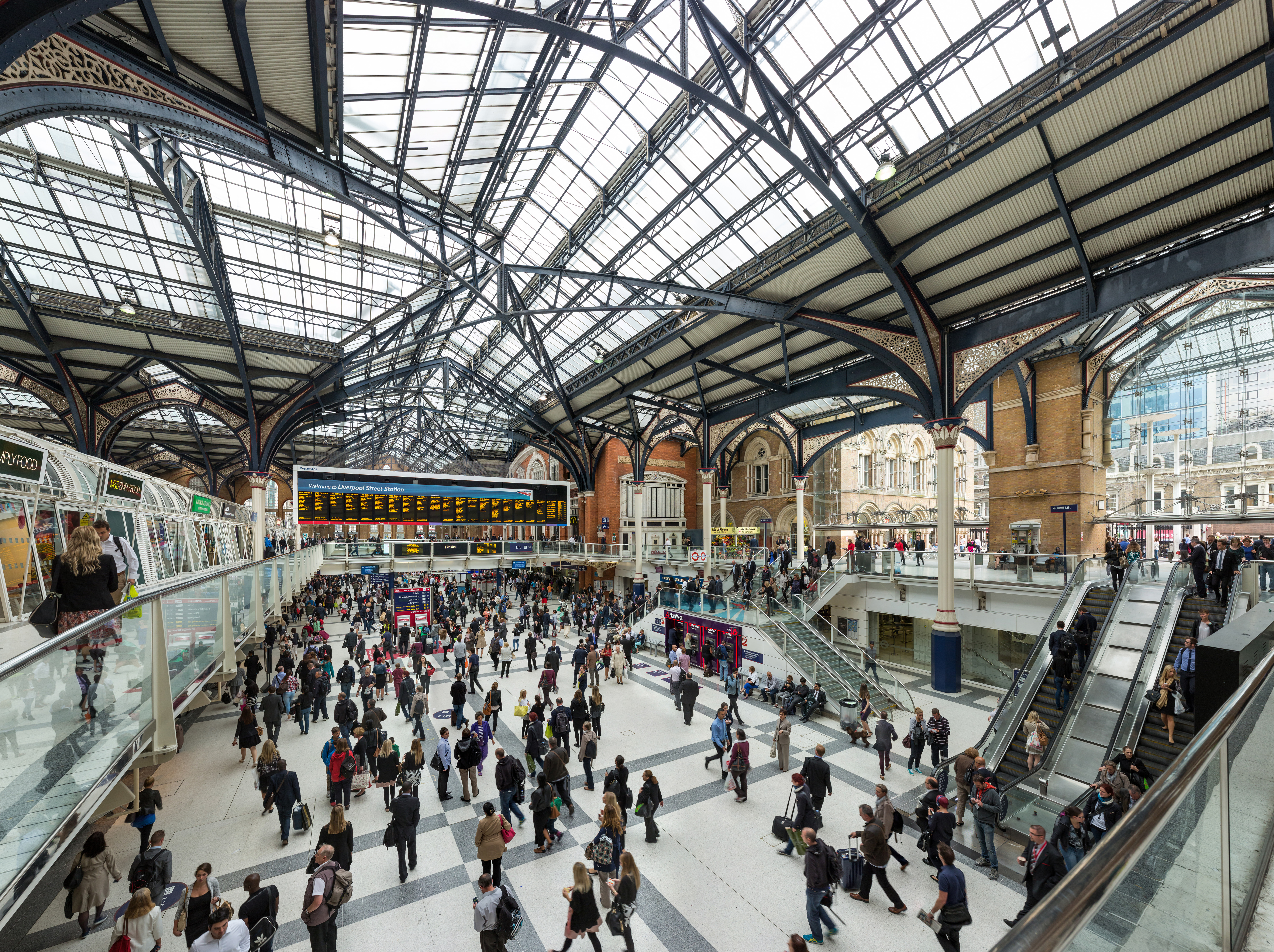 Looking east in the main concourse of Liverpool Street Station in London, England.